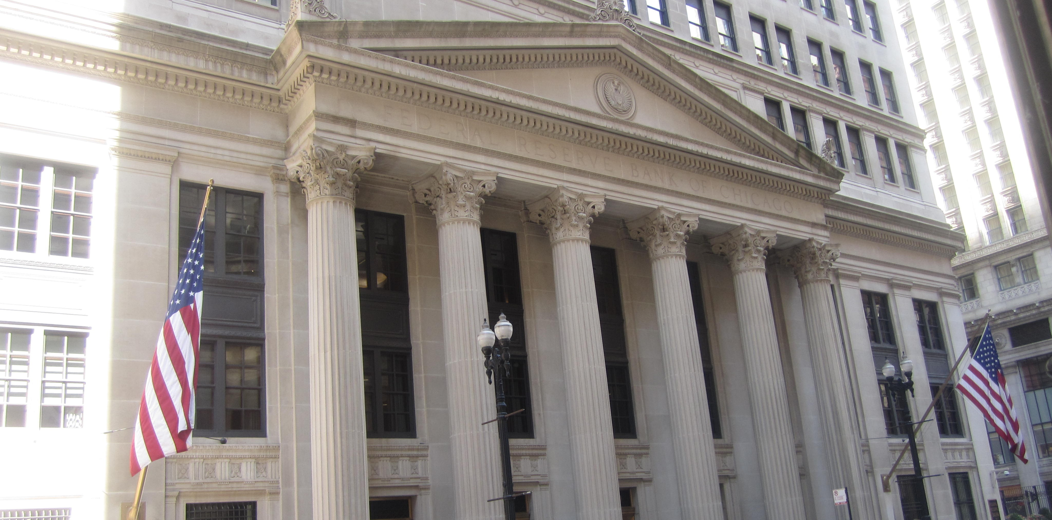 Federal Reserve Bank of Chicago